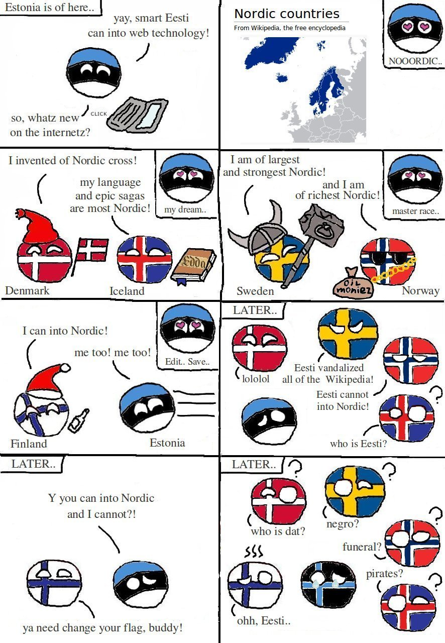 It is not easy to get into Nordic. Such countryballs.